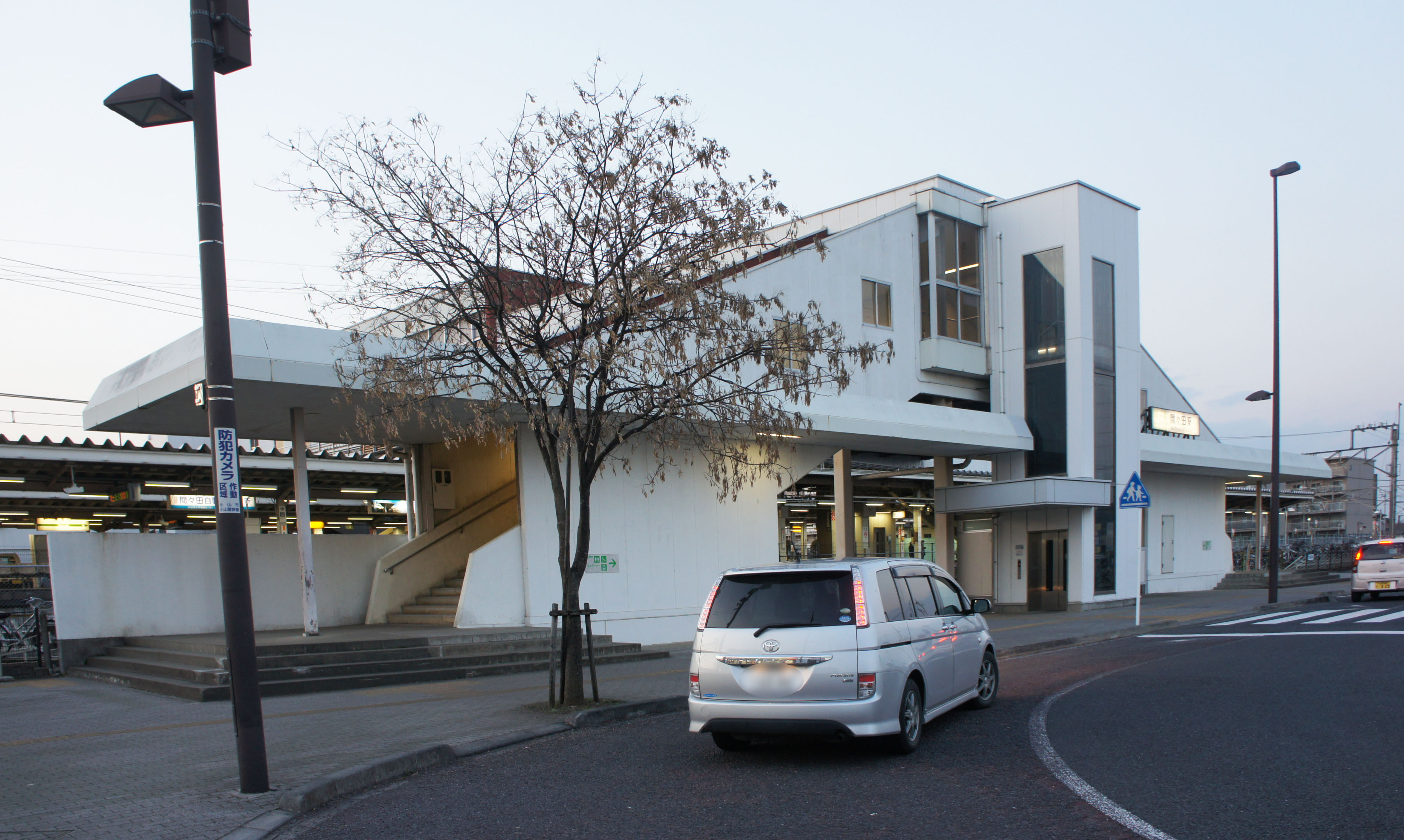 East Exit of JR Tohoku-Main-Line (Utsunomiya-Line) Mamada Station Sony NEX-3